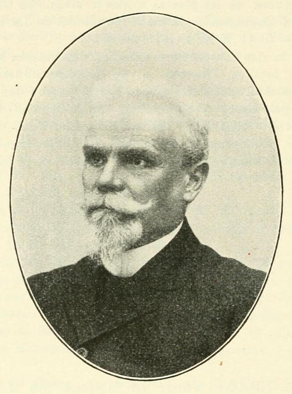 Portrait of the Italian mycologist Giuseppe Cuboni (1852-1920)